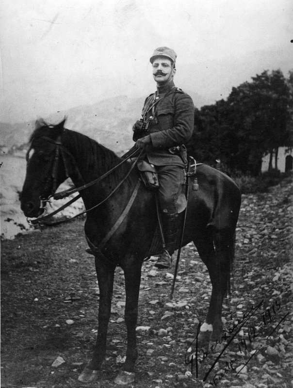 Georgios Katechakis ca. 1912/1913